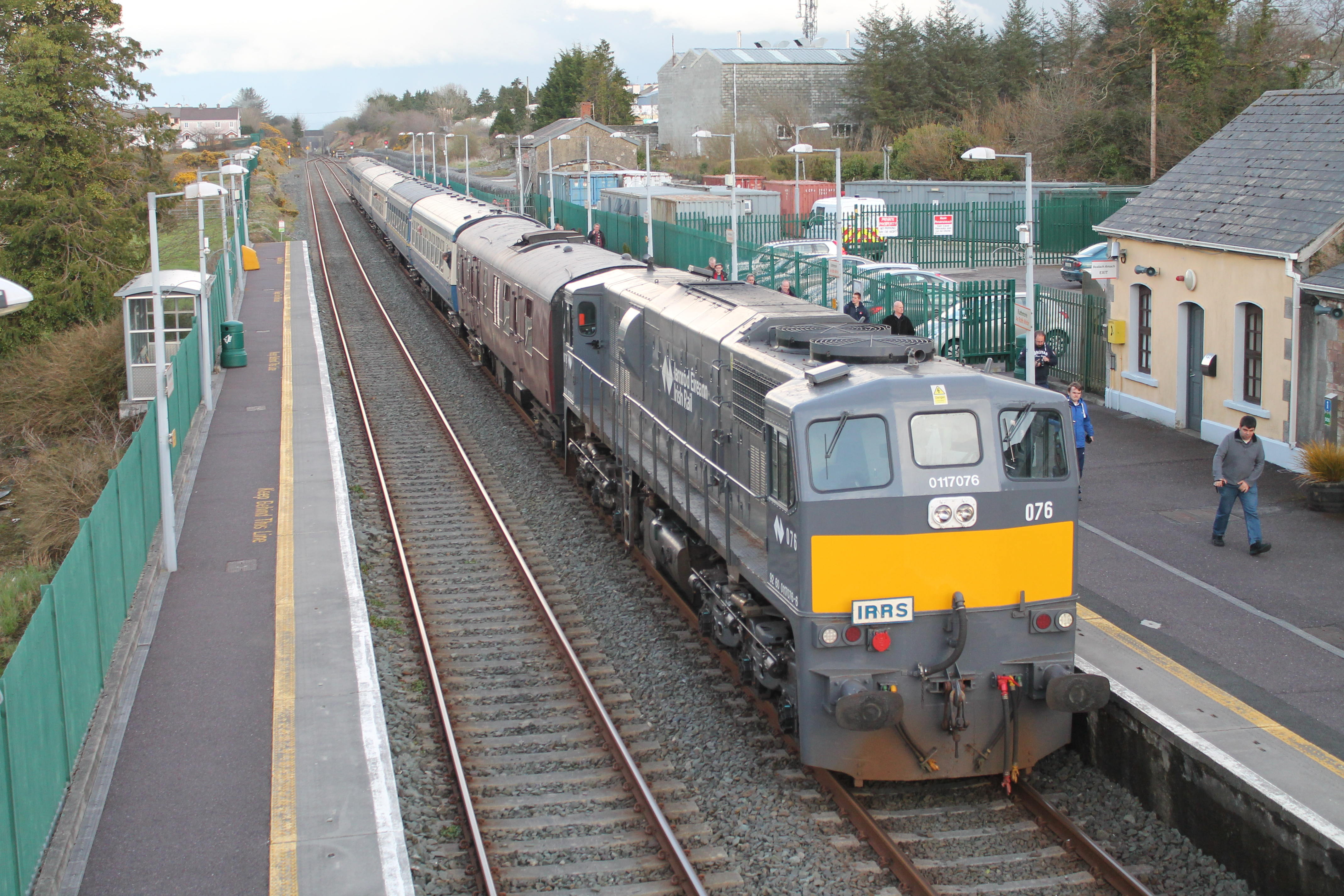 IRRS 071 Class Railtour at Rathmore. 09/04/2016. Loco No. 076.